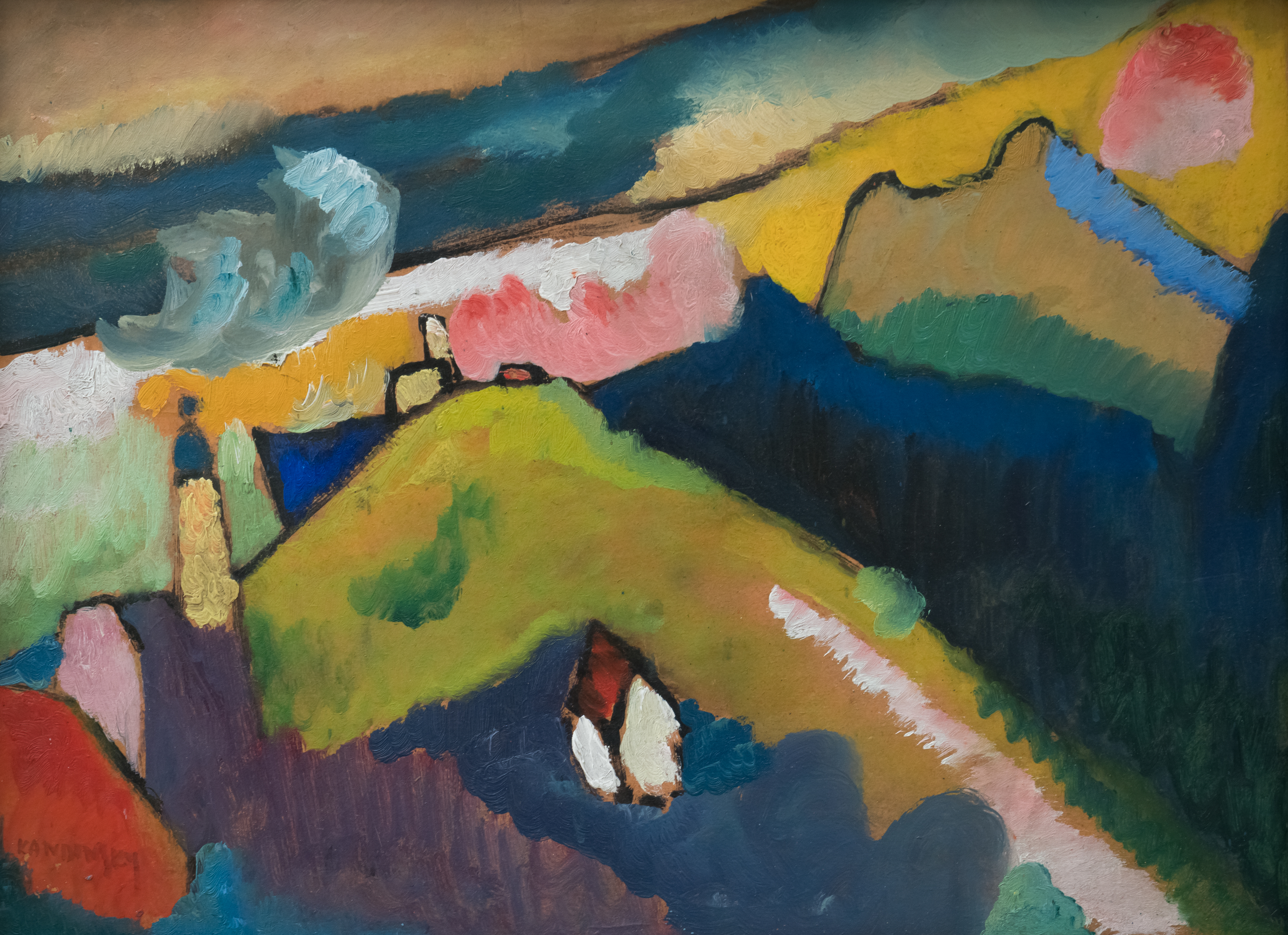 Murnau Mountain Landscape with Church